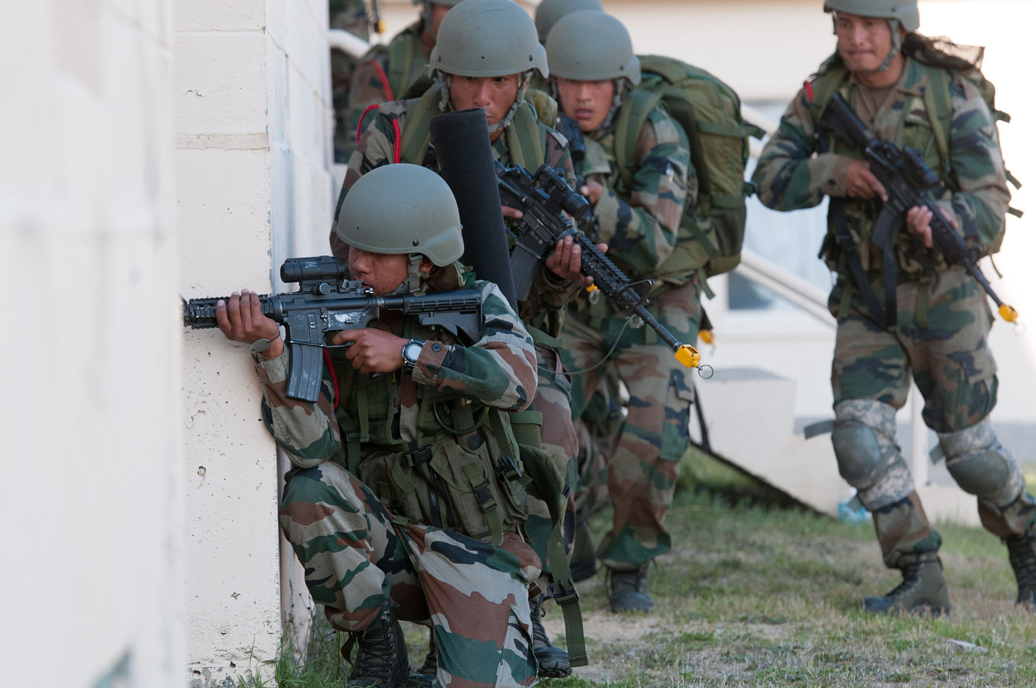 Indian soldiers with 2nd Battalion, 5th Gurkha Rifles, 99th Mountain Brigade, stack against a wall as they prepare to clear a building of insurgents during field training with U.S. Soldiers with the 1st Brigade Combat Team, 82nd Airborne Division, at Fort Bragg, N.C., May 13, 2013. The training was part of Yudh Abhyas, an annual bilateral training exercise between the Indian Army and U.S. Army Pacific, hosted this year by the 82nd Airborne Division’s parent organization, 18th Airborne Corps.